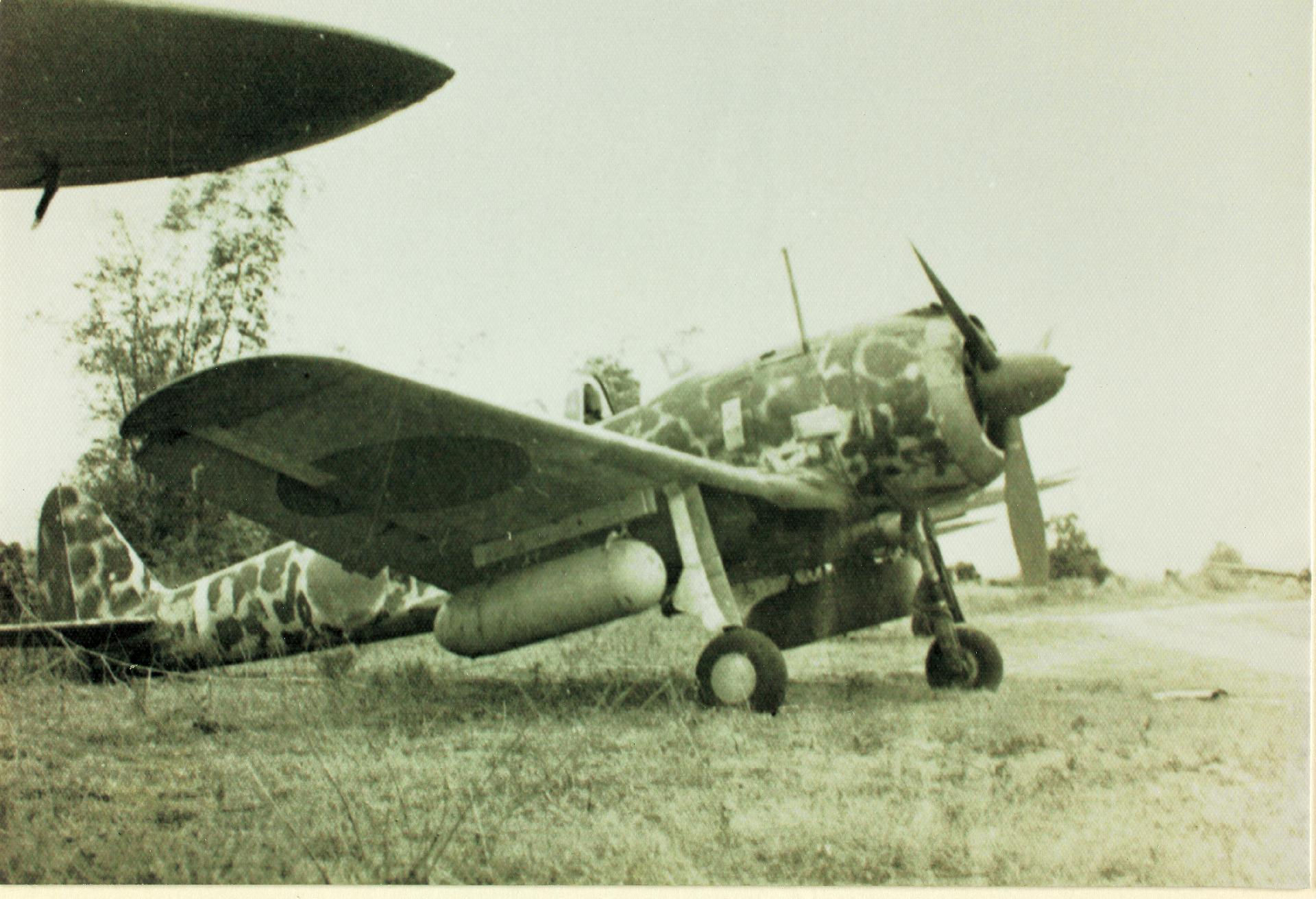 Japanese Nakajima Ki-43 Hayabusa (隼 Peregrine Falcon), designated as an Army Type 1 Fighter, and referred to by Allied forces as "Oscar".